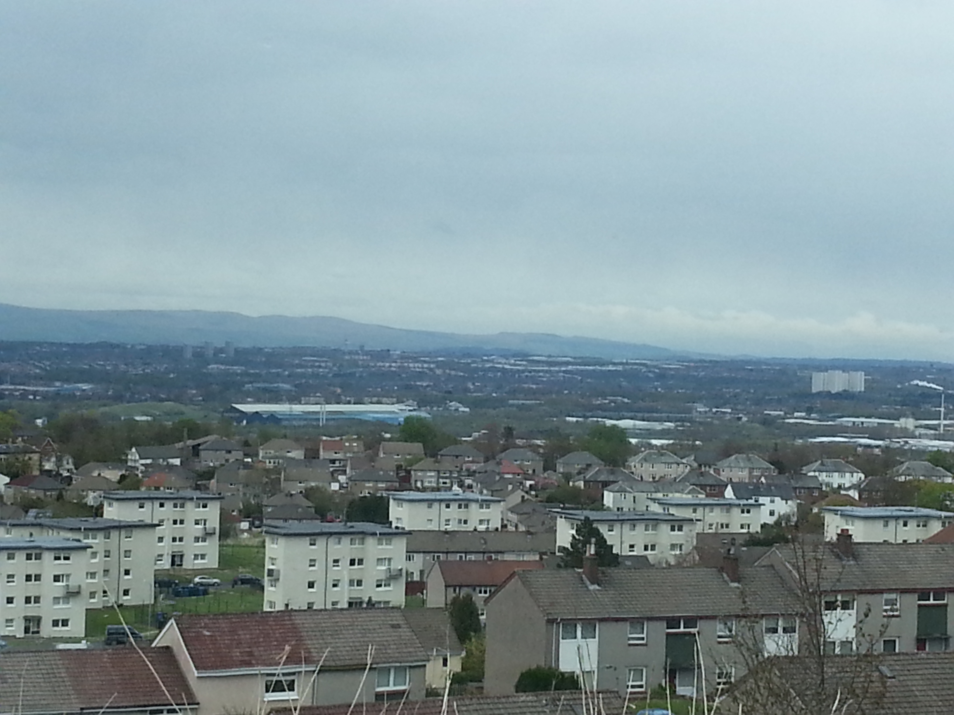 Towards Neilvaig Drive